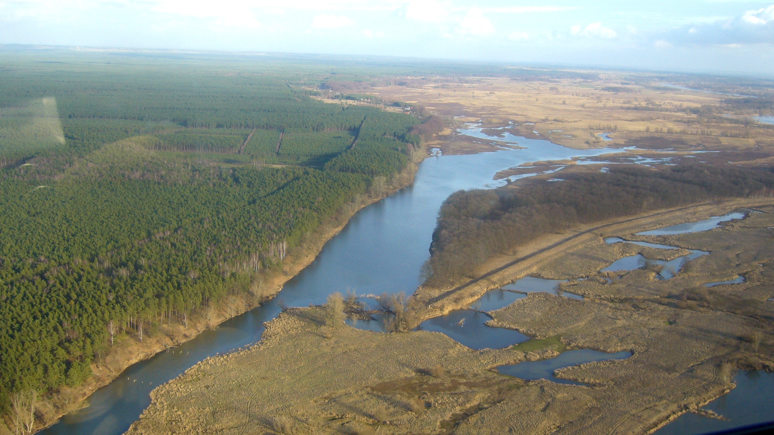 Krzesin Lake in Krzesin Landscape Park, Poland